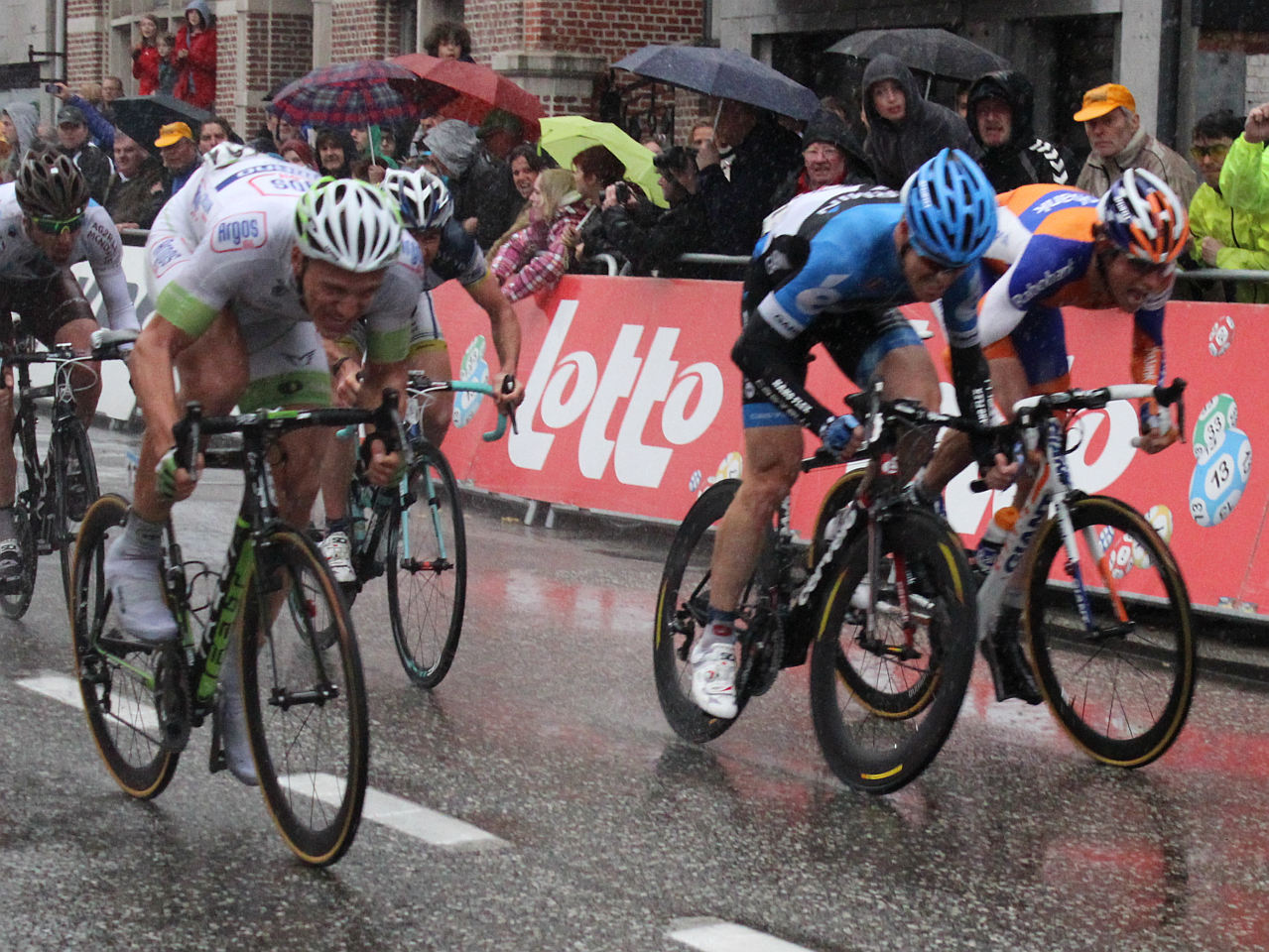 Final Charge - Marcel Kittel, Tyler Farrar, Theo Bos